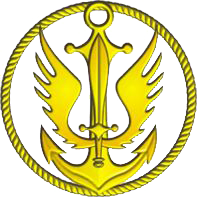 Marines branch insignia of Ukraine